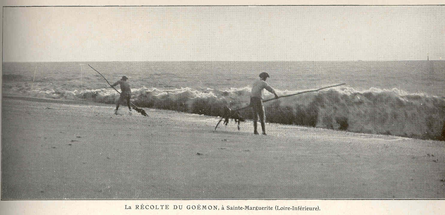 Subject: Marine algae industry, Sainte-Marguerite (France) Geographic Subject: France--Sainte Marguerite Tag: Aquatic Botany